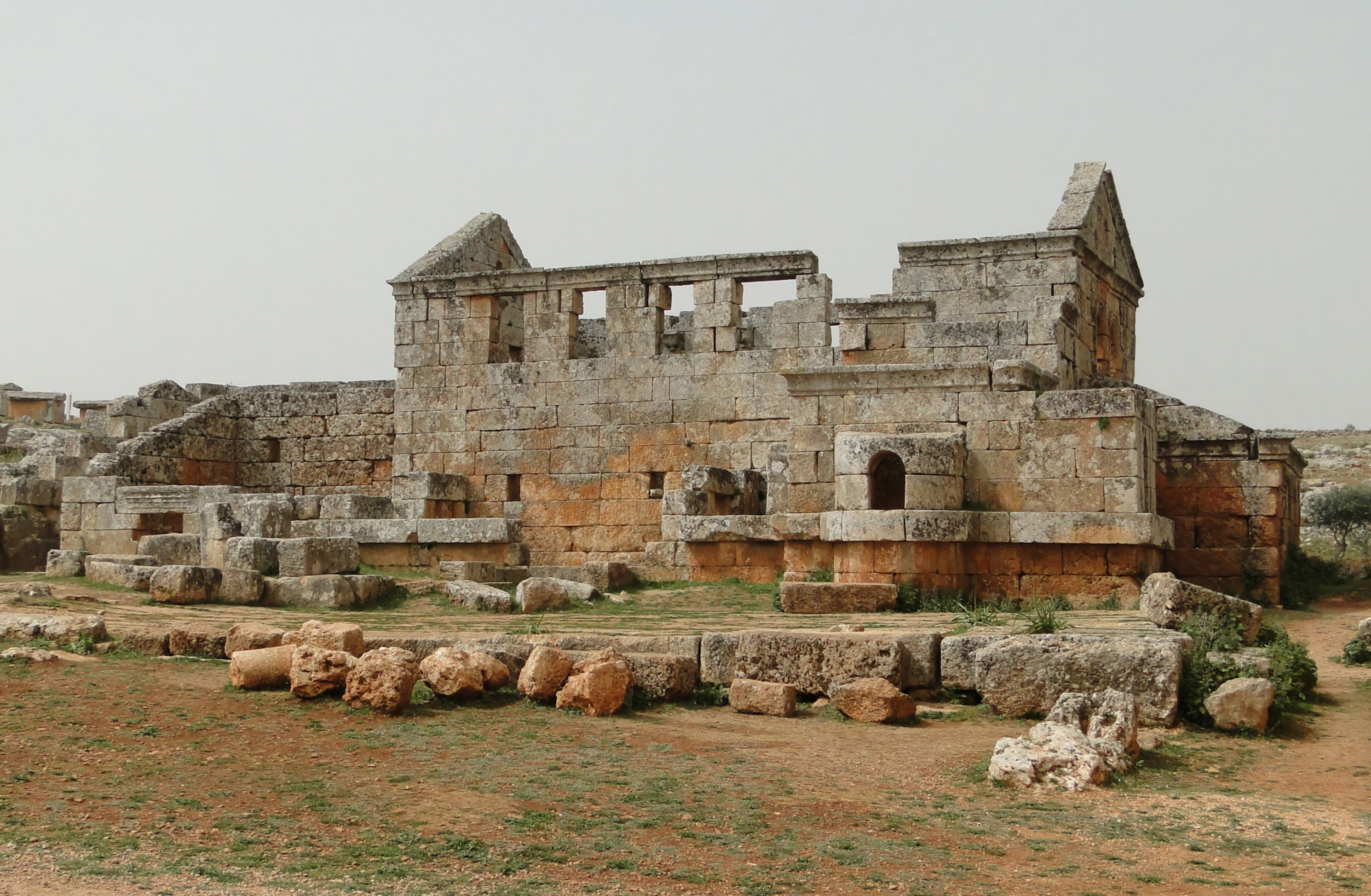 Public baths in Serjilla, Syria